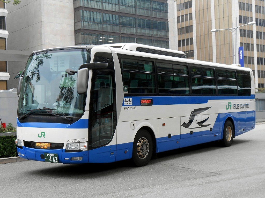 JR bus Kanto Mitsubishi Fuso Aero Ace (BKG-MS96JP)highwaybus "Marronier Tokyo"(Tokyo stn - Sano)